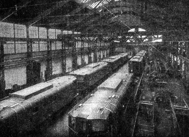 SAR-Class 1E locomotives in the final assembly hall of SLM in Winterthur, Siwtzerland